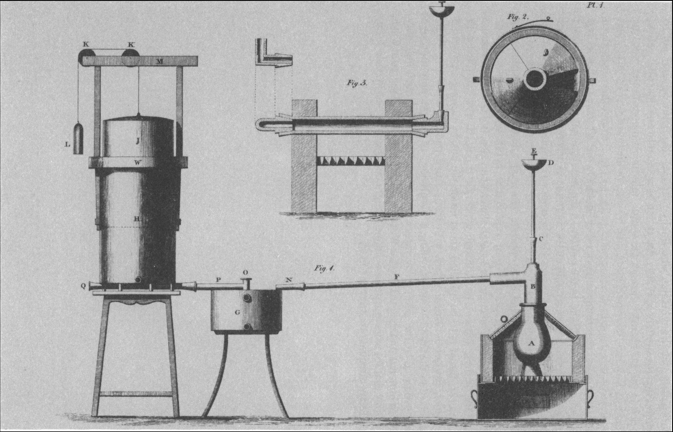 Scientific paper with diagrams.